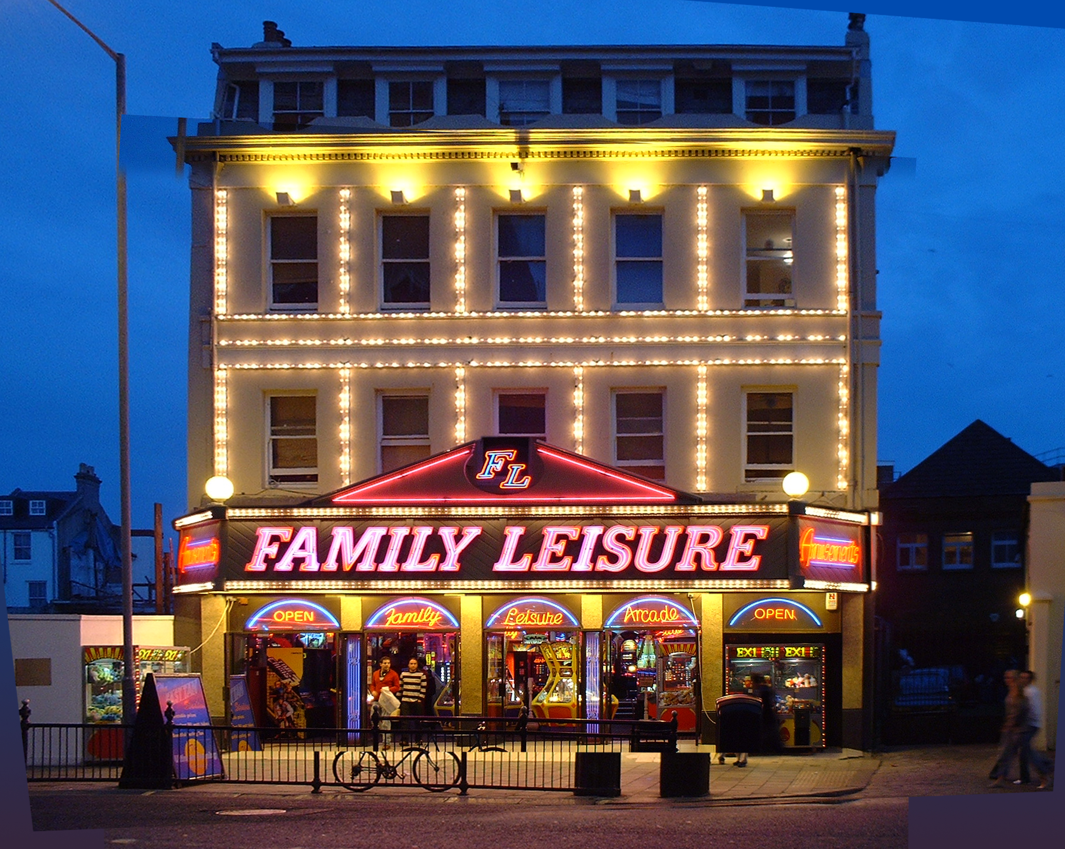 Family Leisure Arcade - a "Penny Arcade" - located at 76 West Street, Brighton. East Sussex. The gambling slot machine amusement business is brightly illuminated with fairy / chaser lights and neon signage.